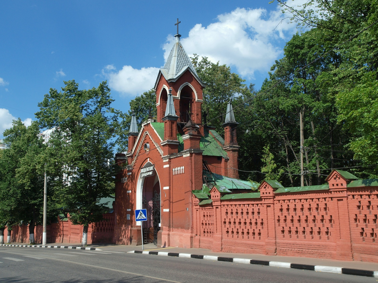 Eastern entrance to Vvedenskoye cemetery (Nalichnaya Street).